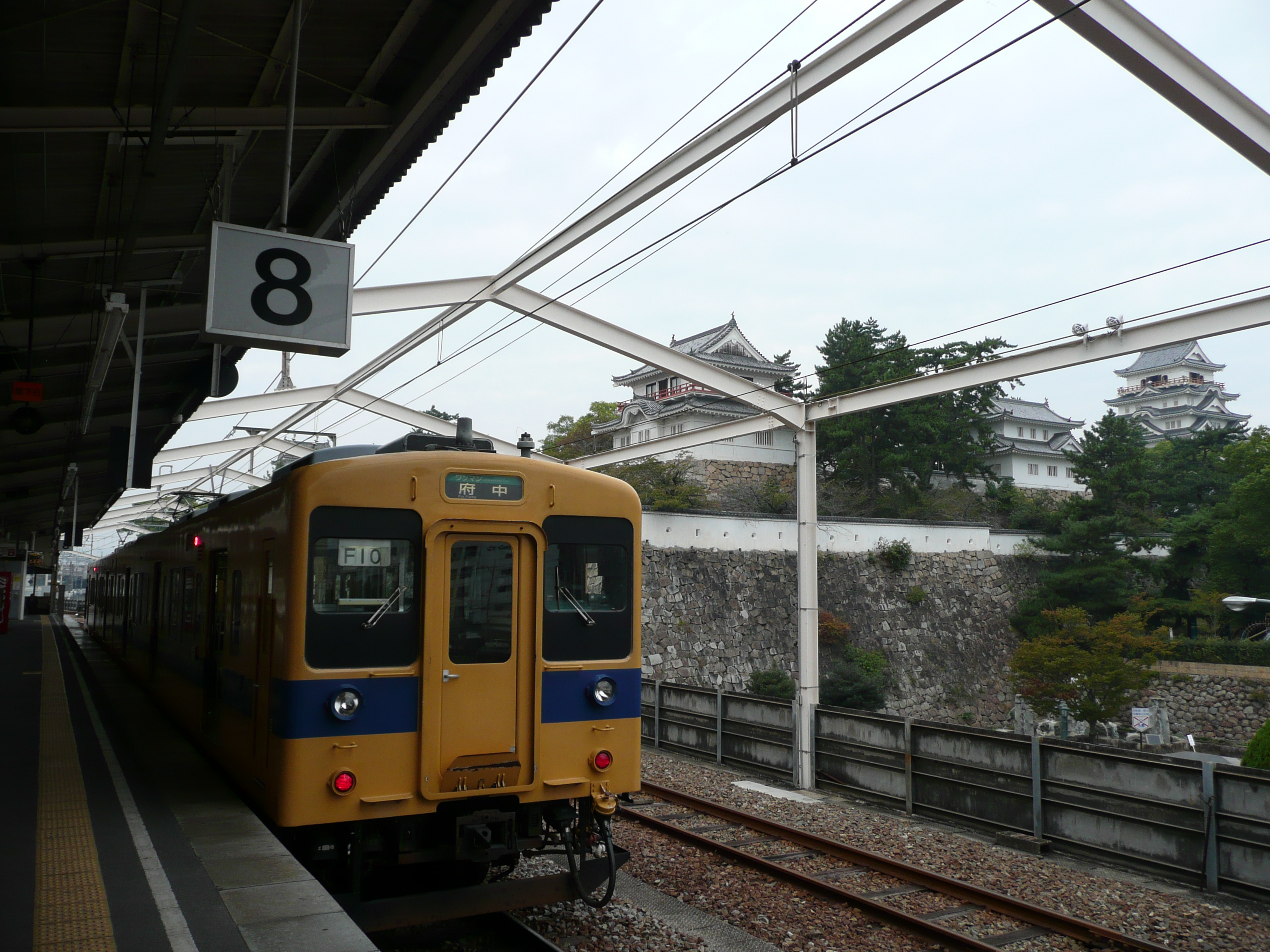 福山駅8番線から望む福山城